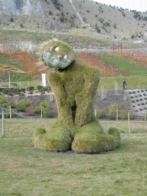 Eve Sculpture